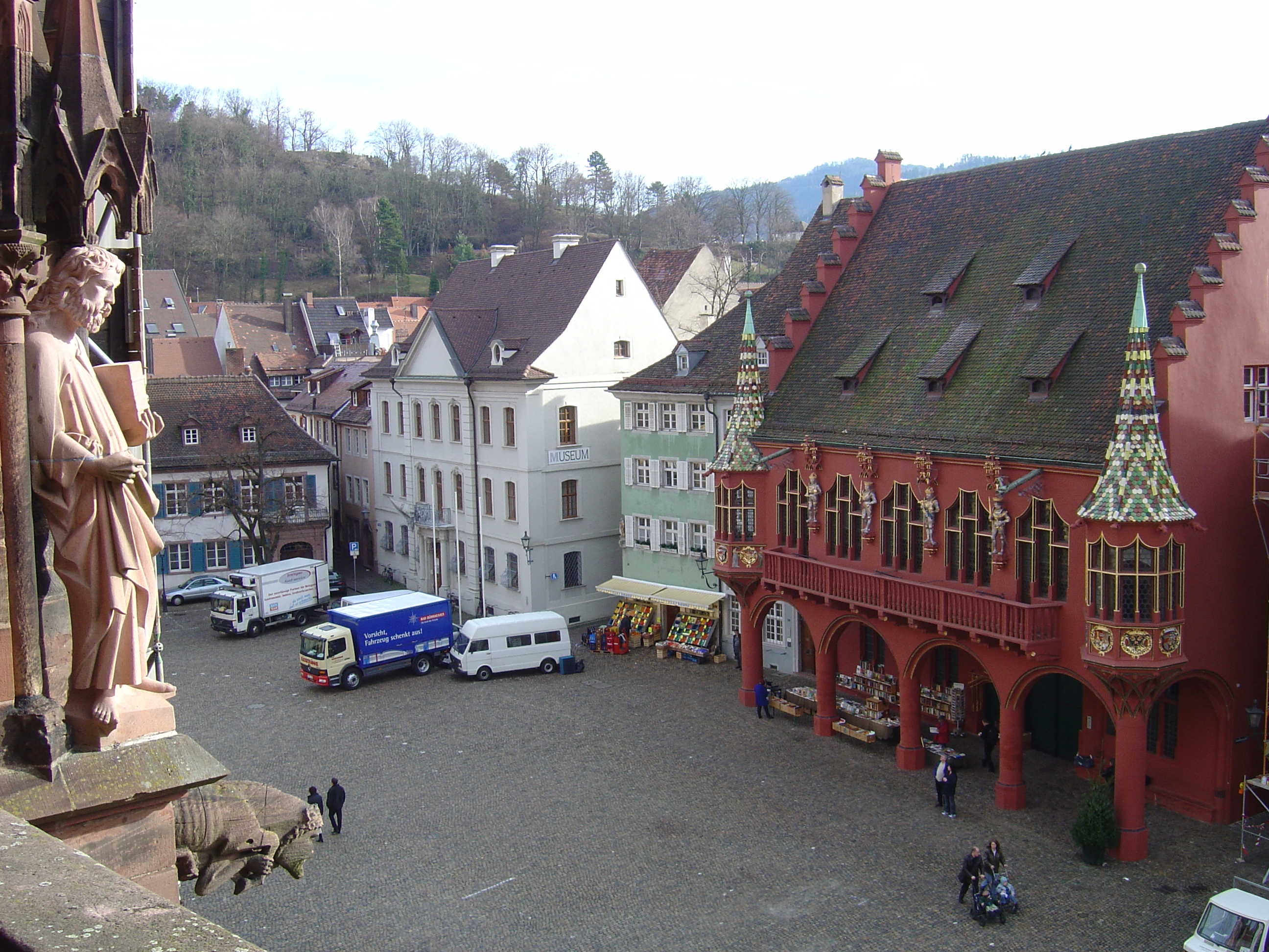 The Münsterplatz (= Cathedral Square) with Historisches Kaufhaus (= Historical Merchants Hall), seen from the roof of Freiburg Minster